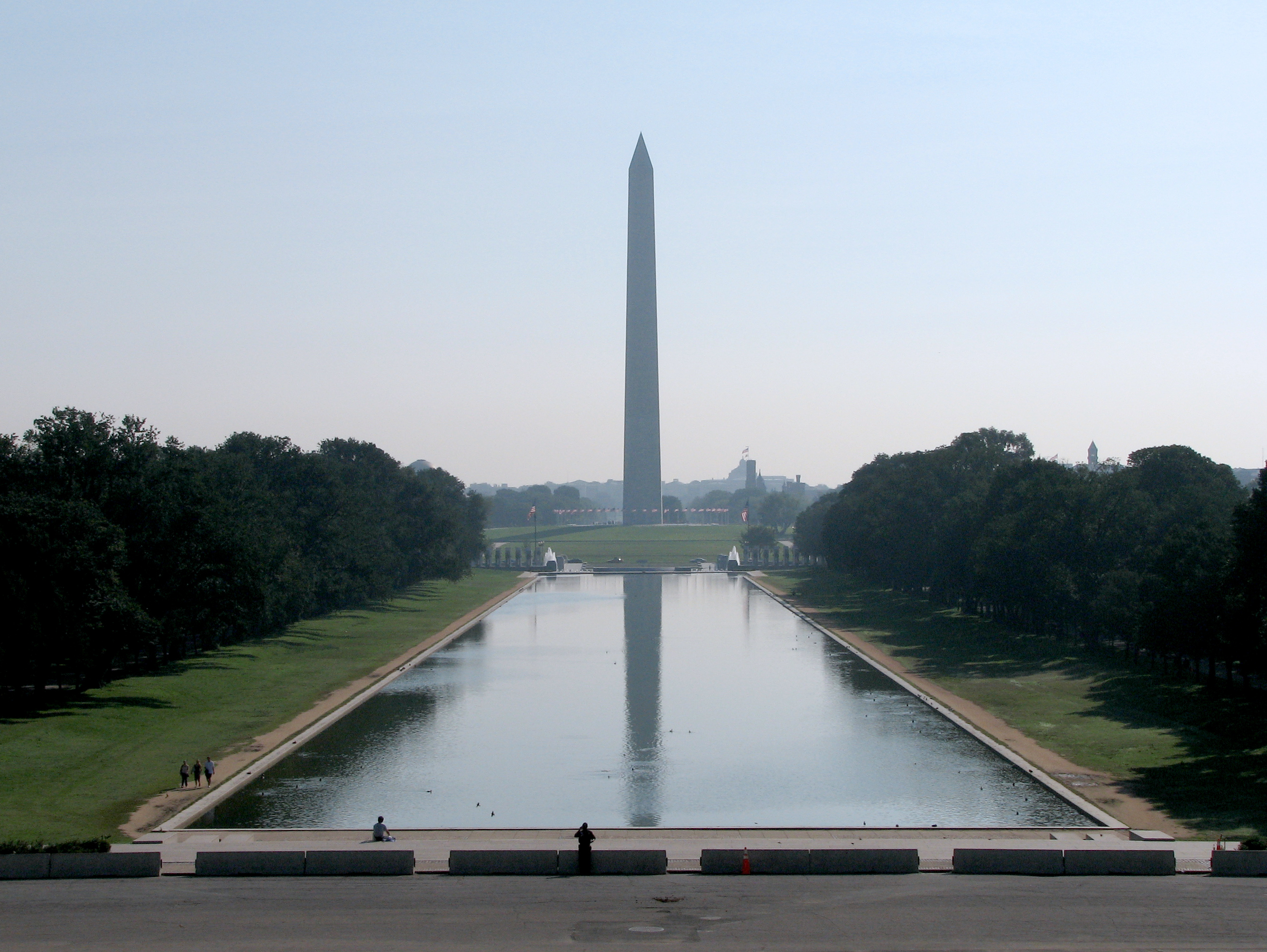 Reflecting pool, from the Lincoln memorial